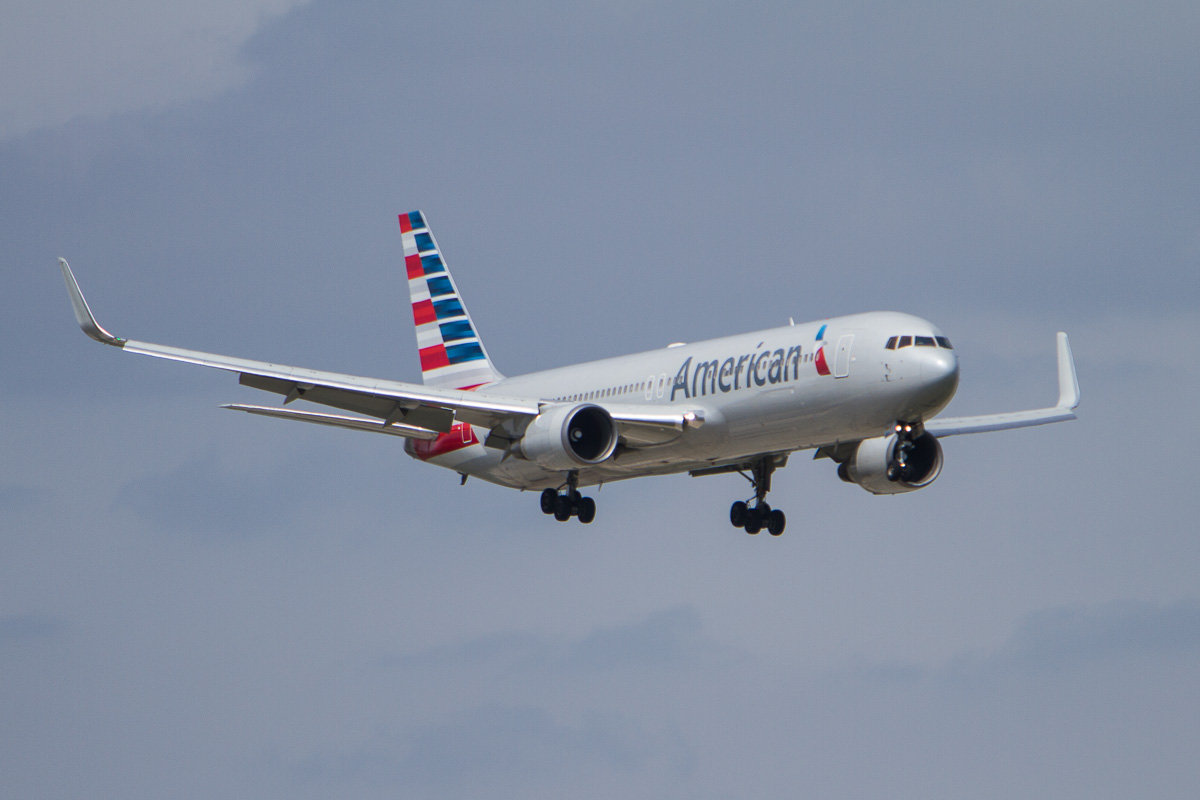 American Airlines 767-300 on approach to DFW Airport. Airplane photo taken from Founder’s Plaza at DFW Airport. For additional photos see: DFW Airport Airplane Photos - April 2014. Photo (cc). If using photo, please credit: Photo courtesy Grant Wickes. In picture: American Airlines Boeing 767-323(ER) N386AA. Flight number AA49 arriving from Paris (CDG) on Saturday April 12, 2014. Photo taken with Canon 7D using 70-200L IS lens with 1.4 extender. Picture by Grant Wickes principal of Wickpoint Management Services and VP Marketing System ID. airplanephotography #dfwairport #americanairlines #boeing